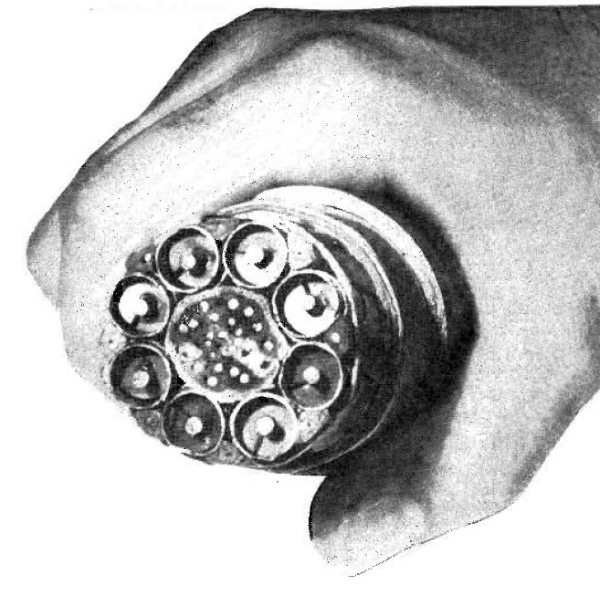 Cross section of long distance AT&T coaxial cable trunkline used after World War 2 to carry telephone calls and television programs between cities. It consists of 8 coaxial subcables surrounding supporting steel strands. Each coax subcable could carry 500 telephone conversations or one television channel. This was installed January 16, 1949 between Philadelphia and Cleveland to link AT&T networks on East Coast with the Midwest.